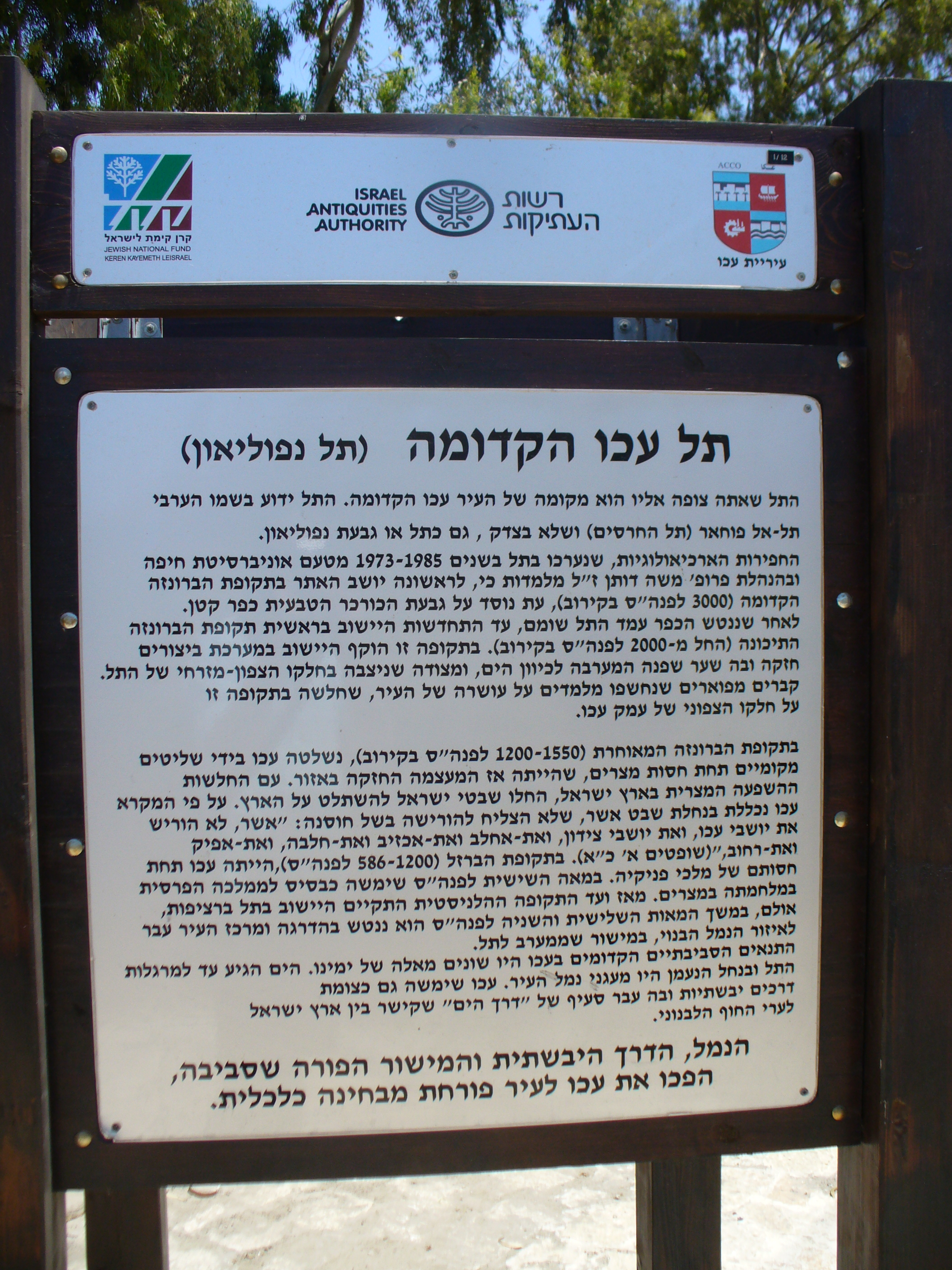 "The hill you are looking at is the site of Ancient City of Acre. In Arabic, this hill is known as Tel Al-Fukhar (the Clay Pottery Hill), and it is also called Napoleon's Hill, although unjustly."